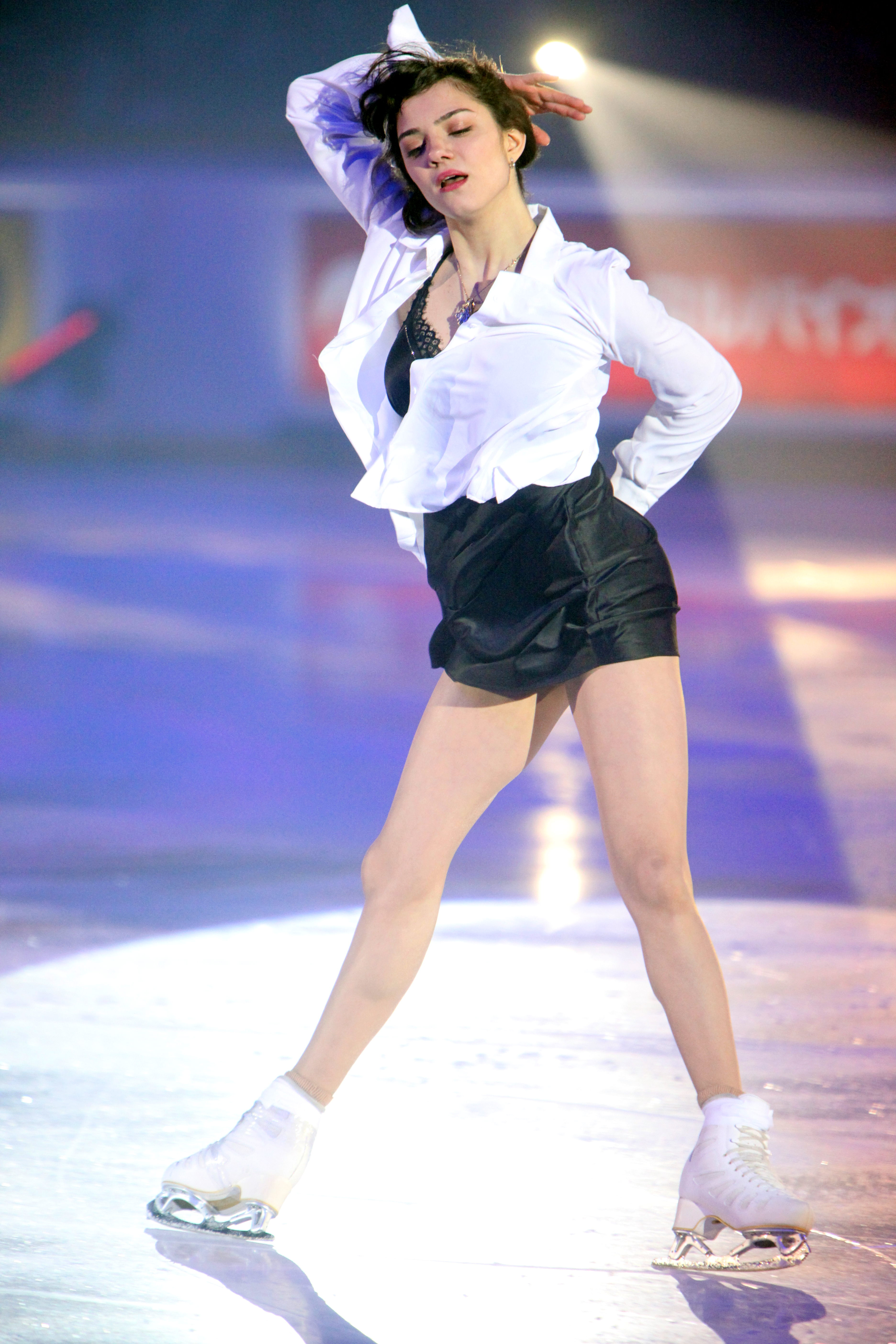 Dmitri Aliev during the gala at the Internationaux de France de Patinage 2018.